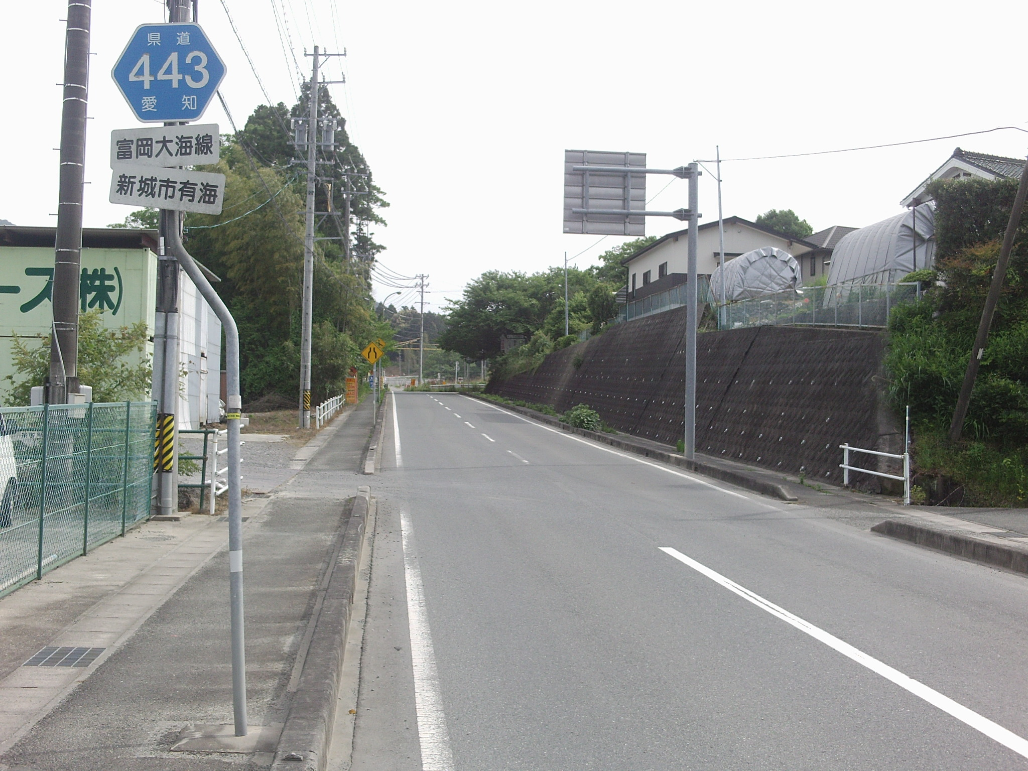 Aichi prefectural road No.443 in Arumi, Shinshiro, Aichi.